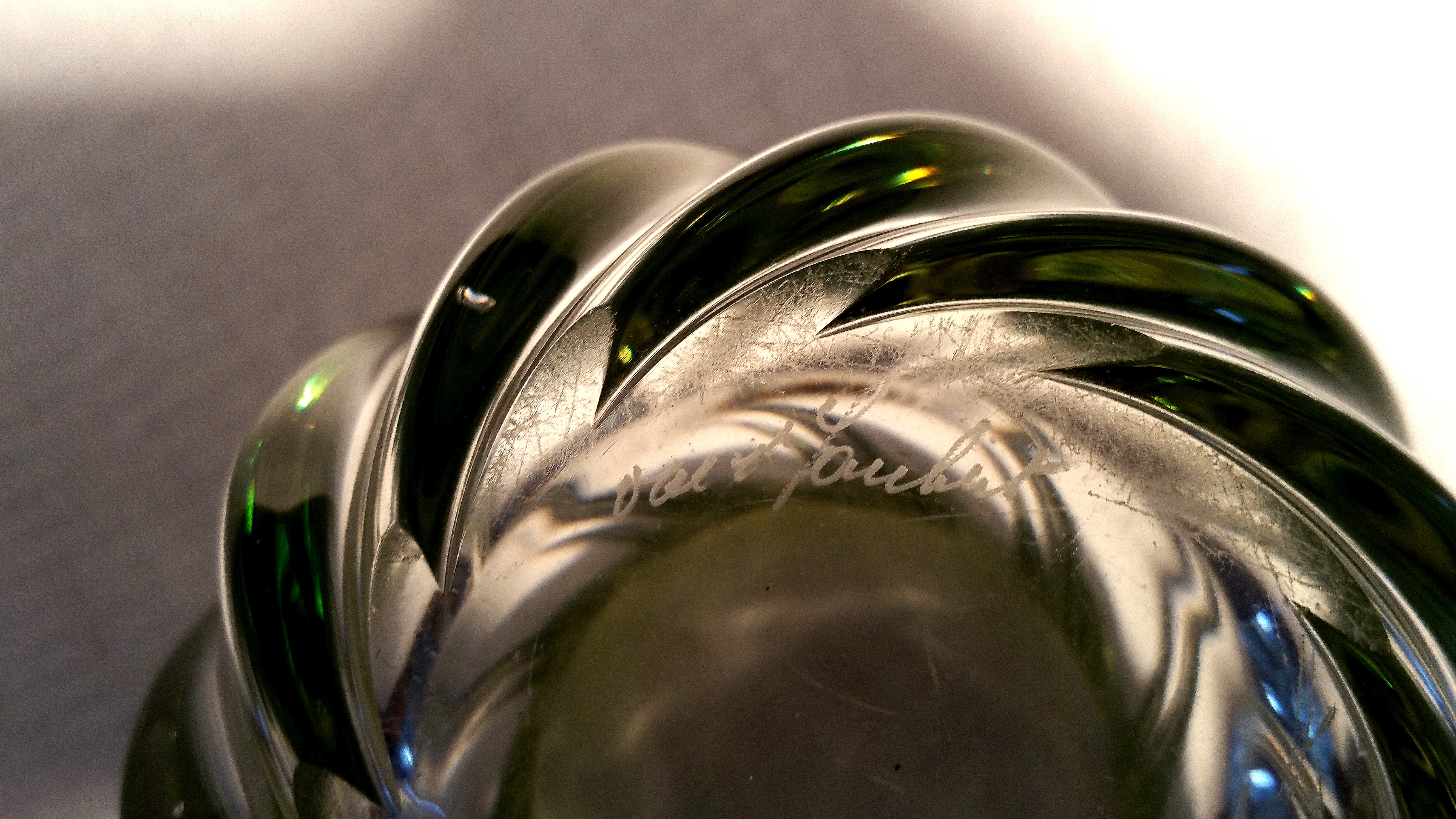 Val-Saint-Lambert Signature, fifty's